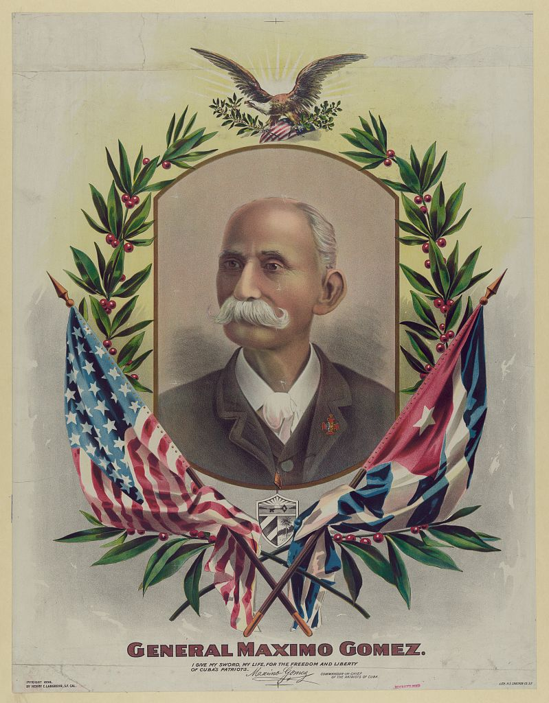 1898 copyright lithograph printed by the Crocker Company in San Francisco shows Máximo Gómez with laurel leafs and flags with caption: “General Maximo Gomez, I give my sword, my life, for the freedom and liberty of Cuba's Patriots (signed) Maximo Gomez Commander-in-Chief of the Patriots of Cuba”